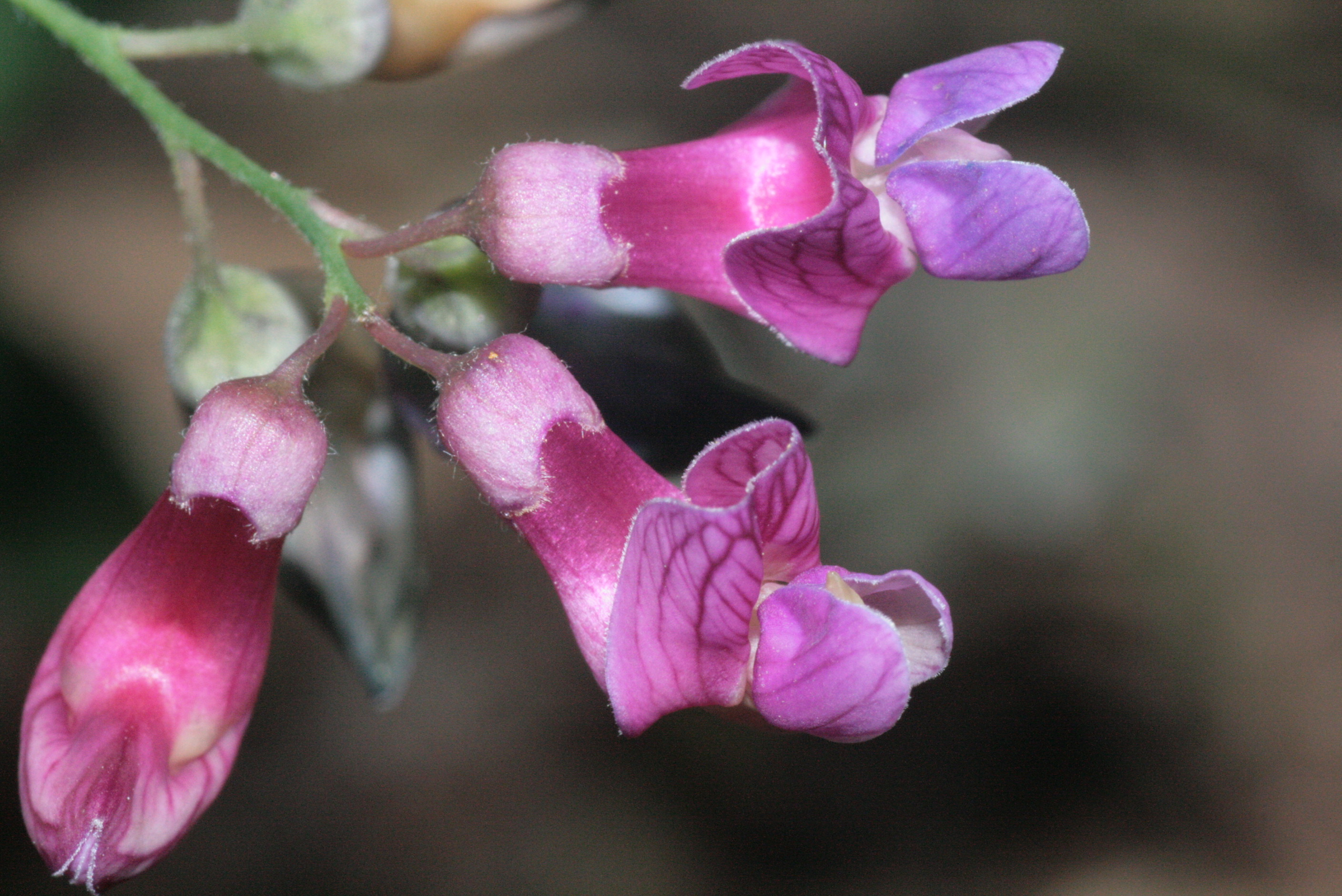 Lathyrus niger